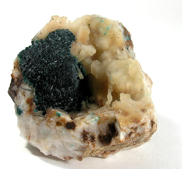 Pseudomalachite, Quartz Locality: Rheinbreitenbach, Rhineland, Germany Size: miniature, 4.1 x 3.4 x 3.1 cm Pseudomalachite on Chalcedony A very showy and interesting, historic specimen of this rare copper PHOSPHATE, not to be confused with much more common malachite (a copper carbonate!). This is very old material. 4.1 x 3.4 x 3.1 cm